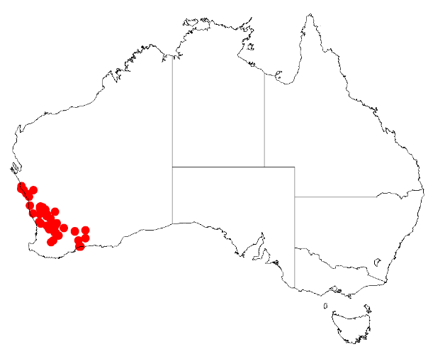 Scaevola humifusa occurrence data downloaded from Australasian Virtual Herbarium 12 May 2019